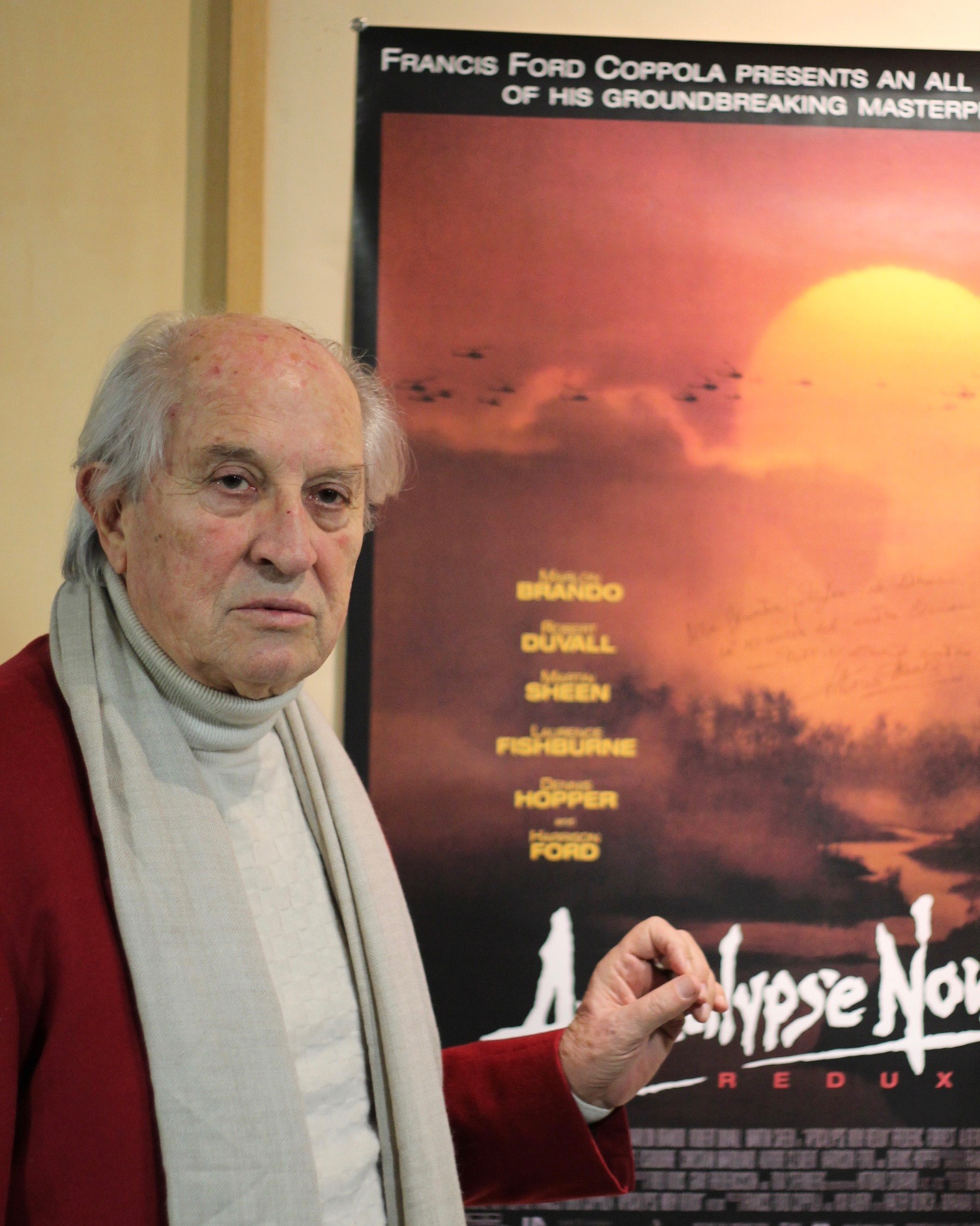 Vittorio Storaro (an Italian cinematographer) at Portuguese Cinemateca before receiving Lifetime Achievement Award from Portuguese Academy of Cinema